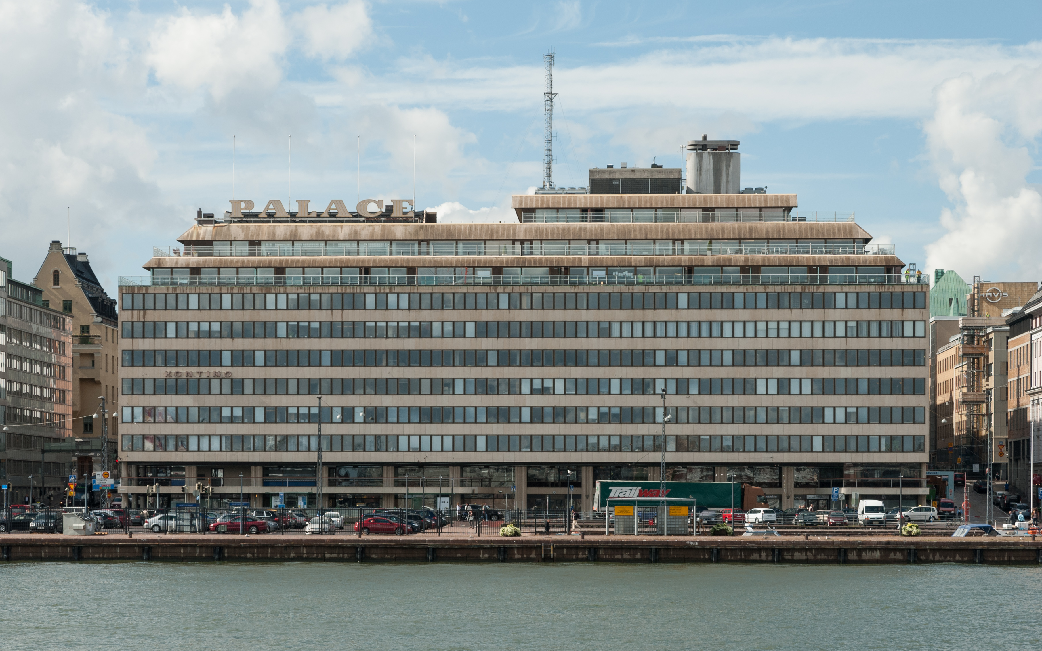 The modernist Palace Hotel in Helsinki as seen from east